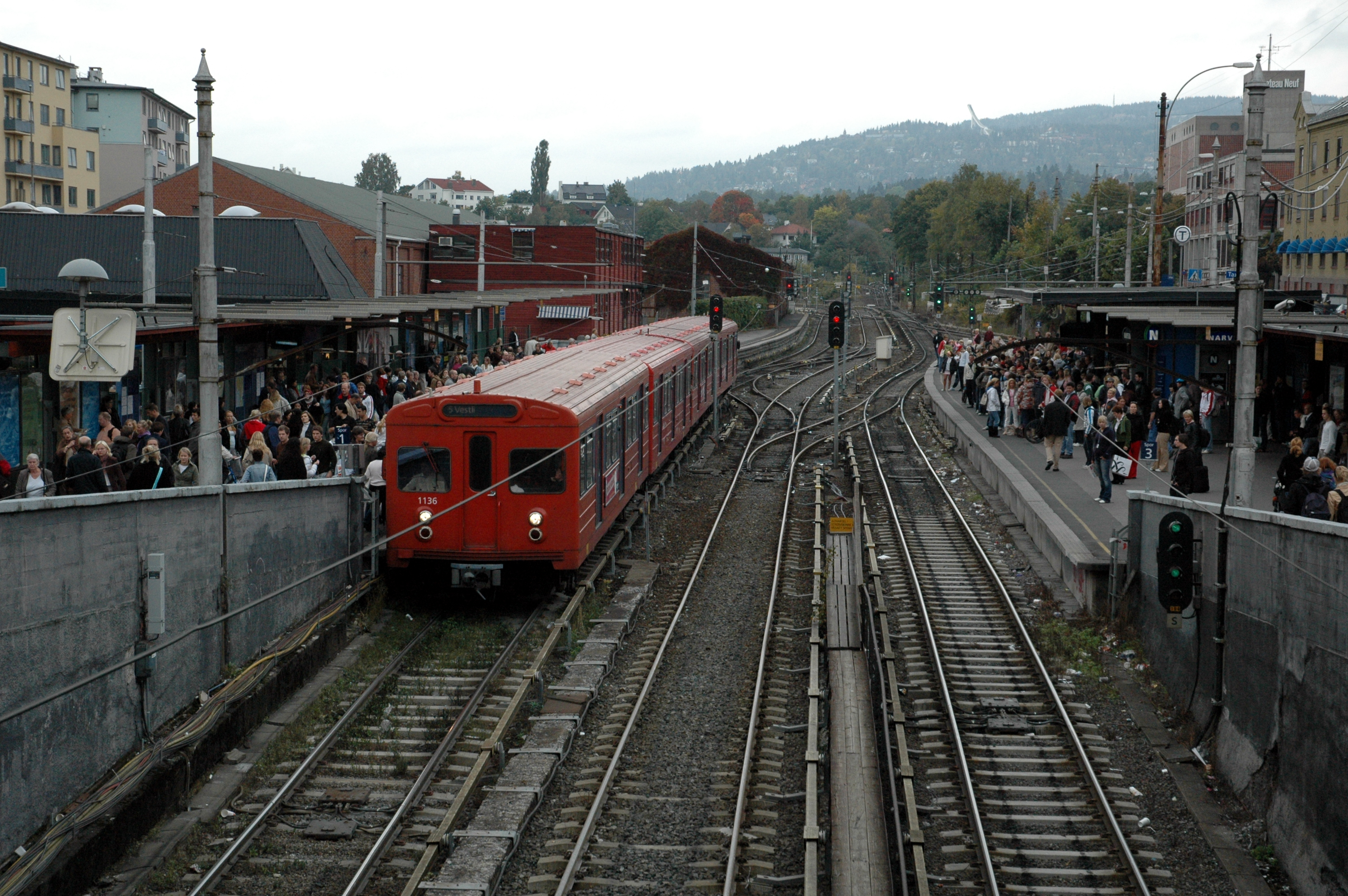 T1000-train at Majorstua metro station, Oslo, Norway. Holmenkollen ski jump at the hill in the back.